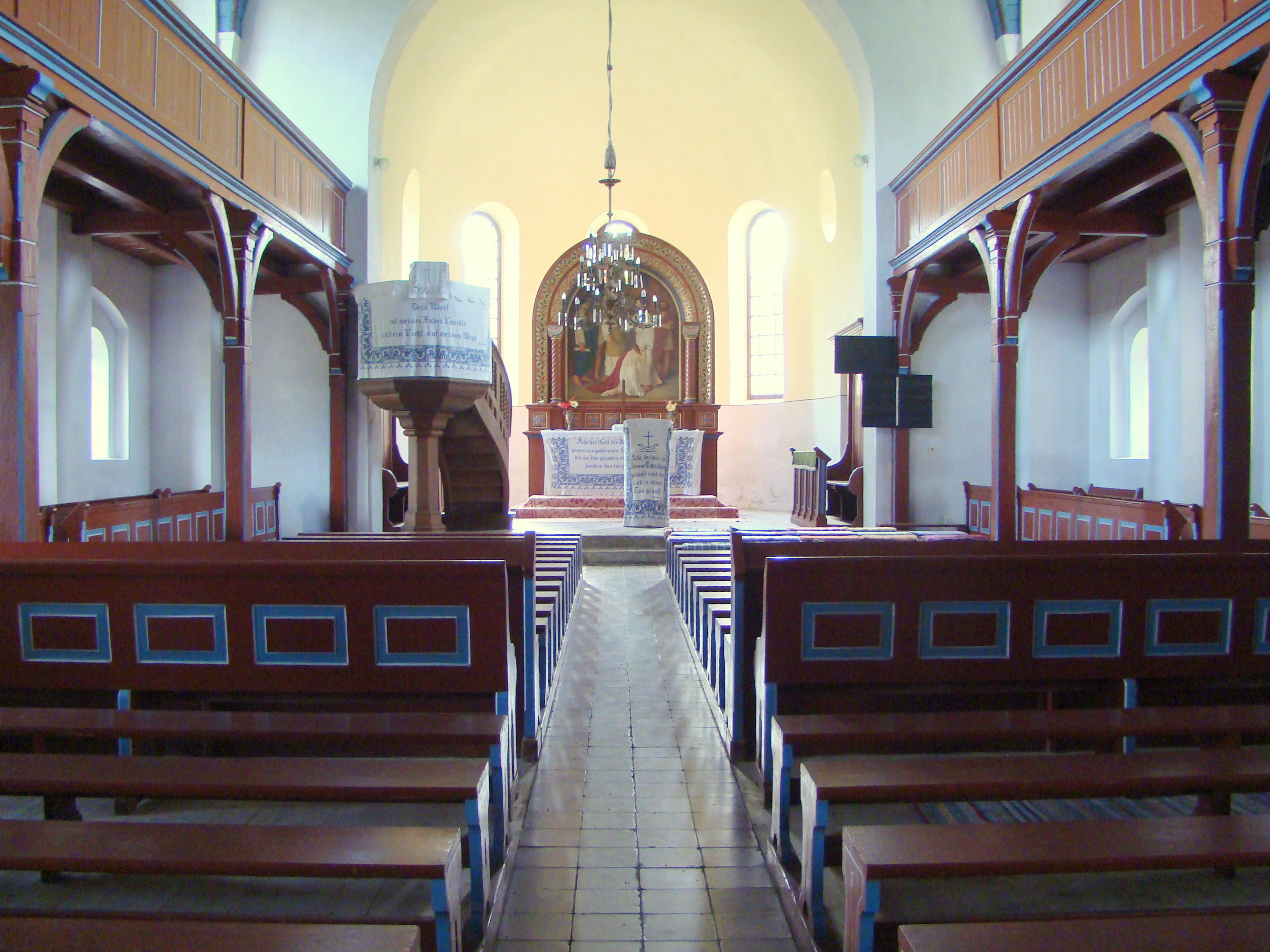 Lutheran church in Criș, Mureș county, Romania